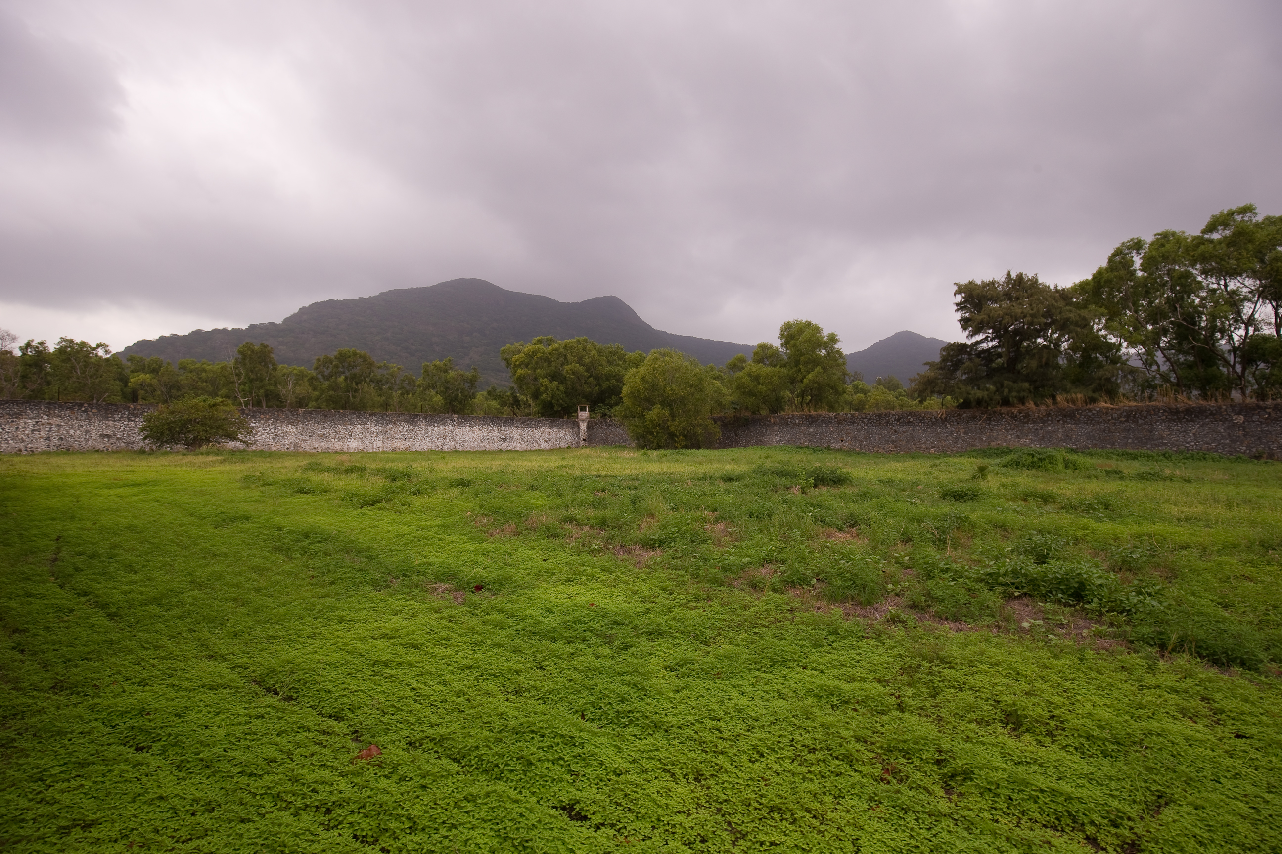 Côn Đảo Prison, established by the French colonial government in 1861 at Côn Sơn island, Vienam.